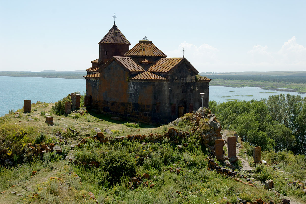 The 9th century Armenian Monastery Hayravank on the shores of Lake Sevan in Armenia.